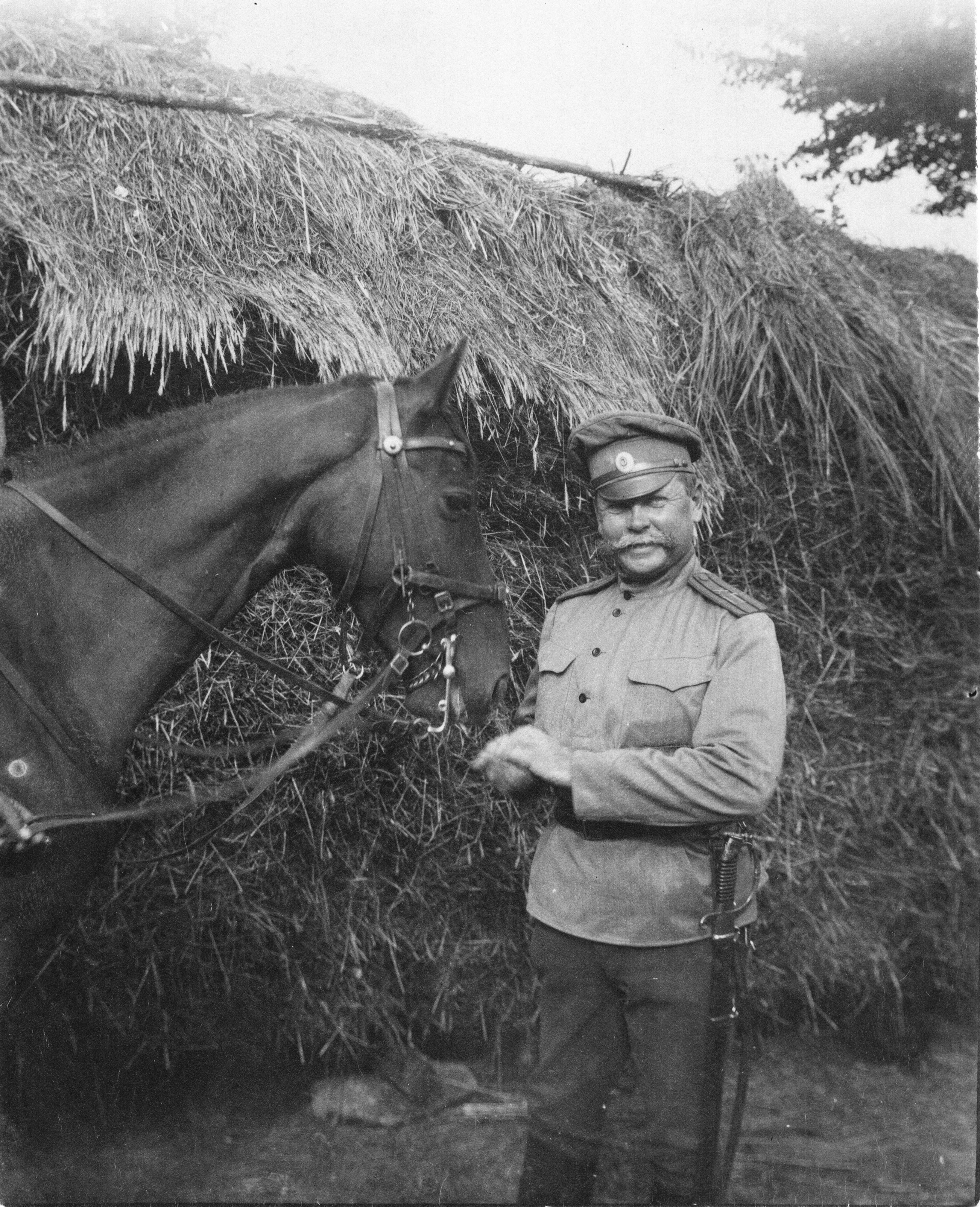 Photograph of the Finnish supreme commander of military Kaarlo Kivekäs (1866–1940).